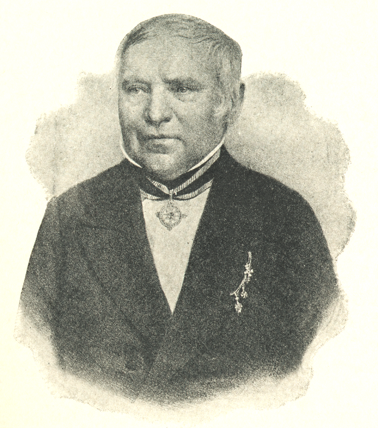 Christian Gottfried Ehrenberg (1795-1876), German naturalist, zoologist, comparative anatomist, geologist, and microscopist